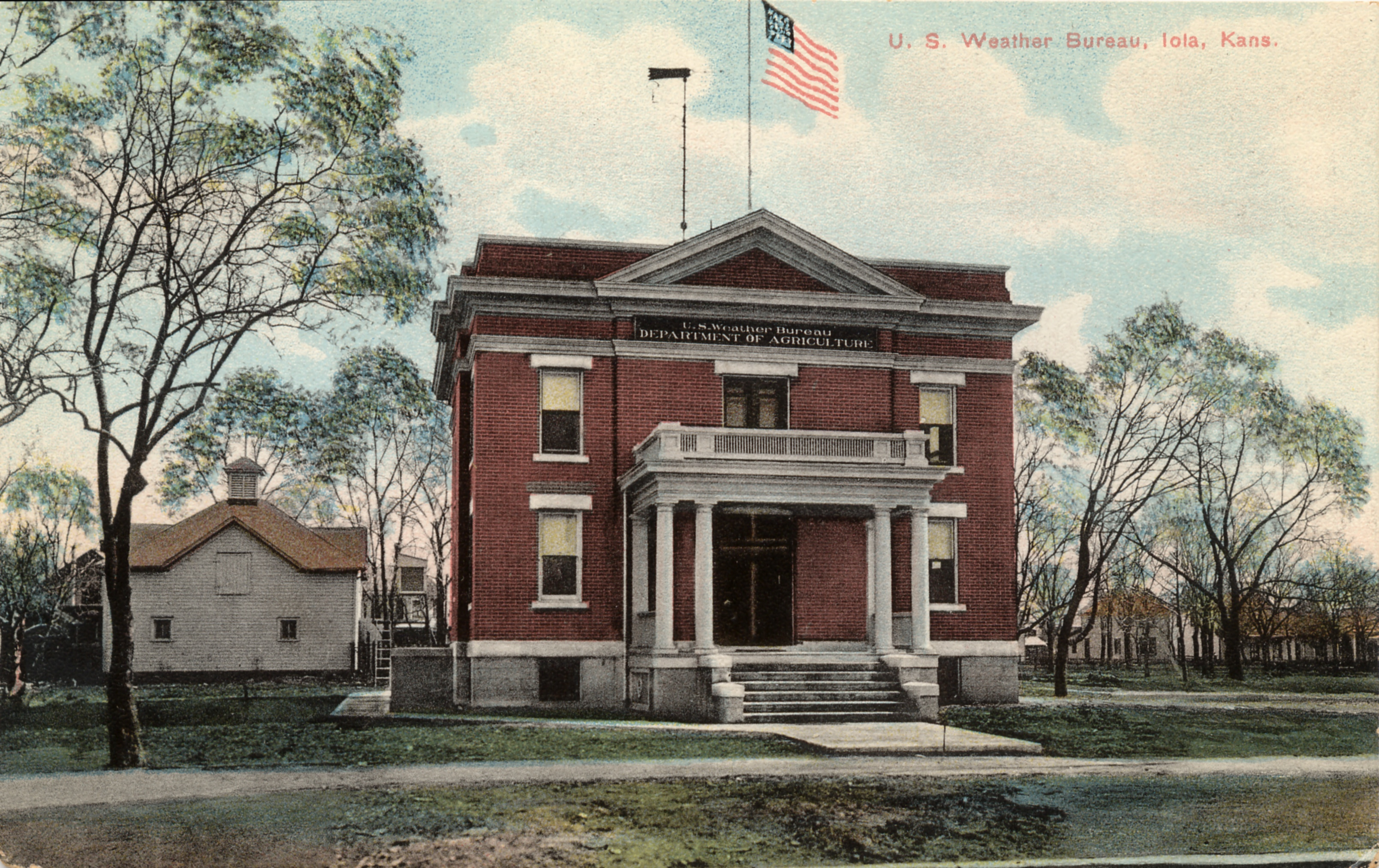 Postcard of the U.S. Weather Bureau Building at Iola, Kansas. 1900 Circa.